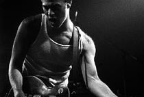 Craig Wedren playing live with Shudder to Think